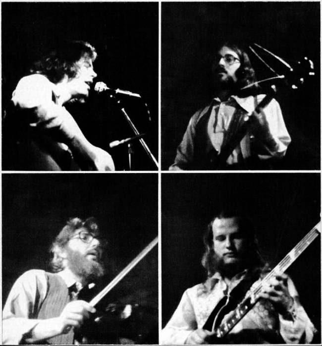 Trade ad for McKendree Spring's album Second Thoughts. To better adapt it to his respective Wikipedia article, the ad was cropped and cleaned in a graphics editing program. The original can be viewed at the source below.